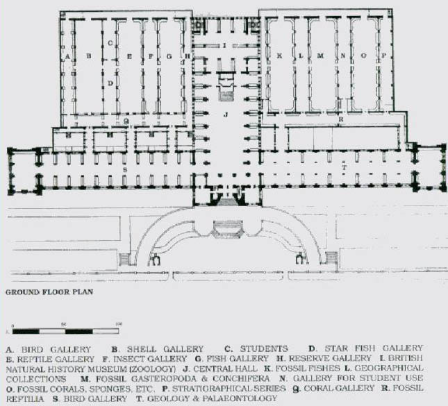 This 1881 plan shows the original arrangement of the Natural History Museum in London. The museum has since been extended and rearranged. The scale bar shows 100 feet, which is 30.48 metres.